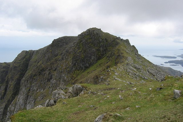 The narrow summit ridge of Beinn Mhor just below the top.